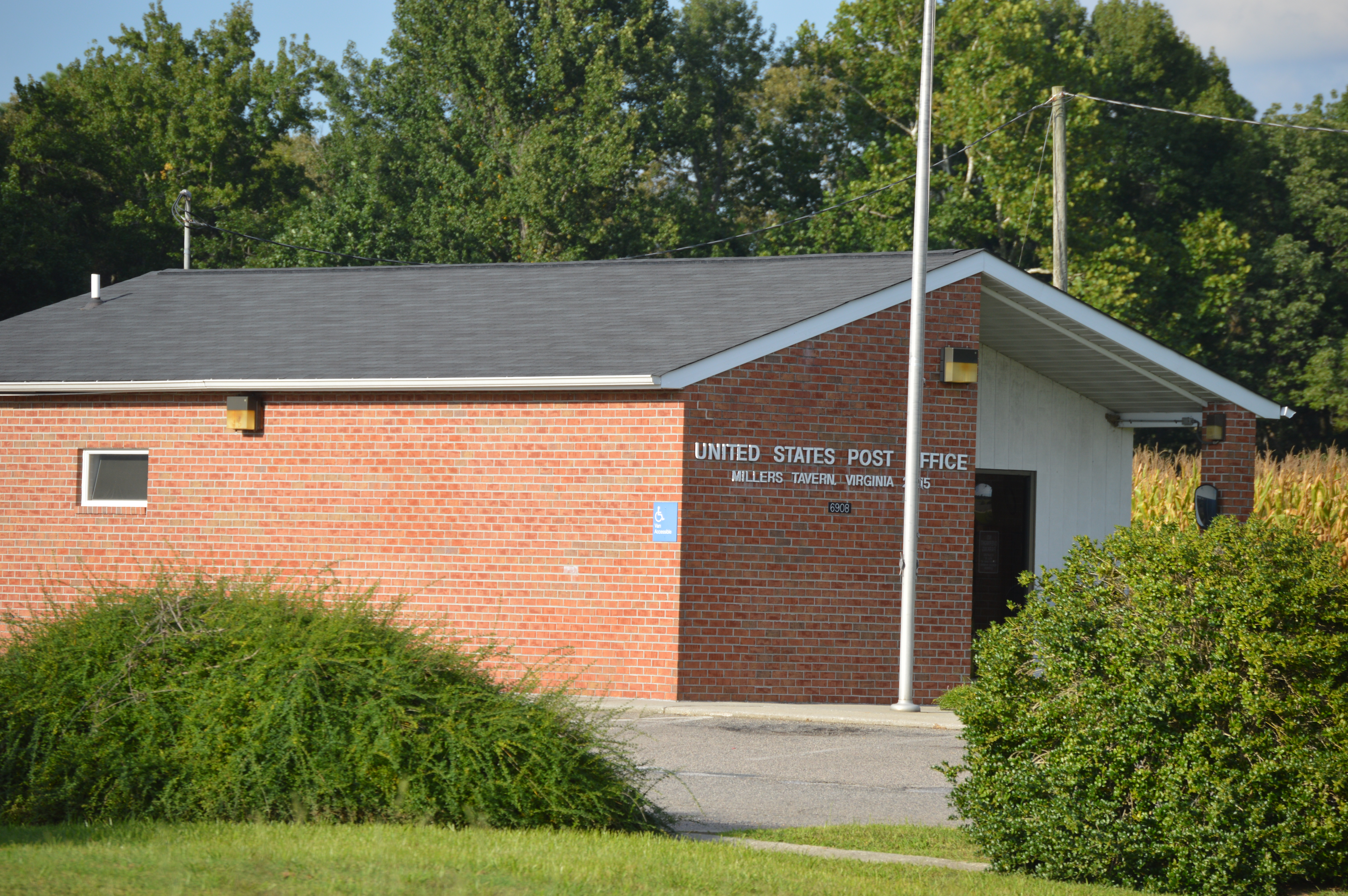 Front and western side of the Millers Tavern post office, located at 6908 U.S. Route 360 at Miller's Tavern in Essex County, Virginia, United States.